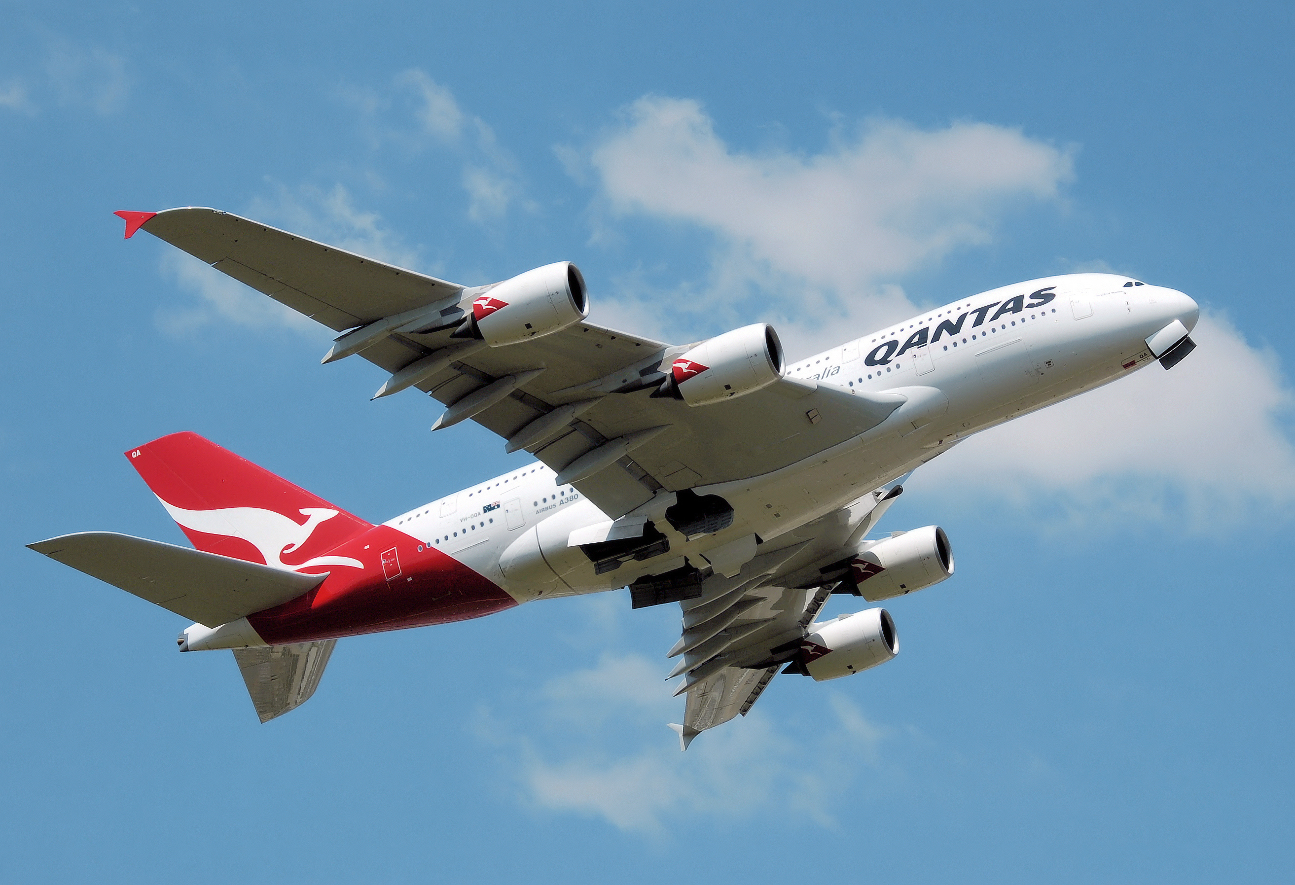 Qantas Airbus A380 (VH-OQA) takes off from London Heathrow Airport, England. The main and nose undercarriage doors have not yet closed.